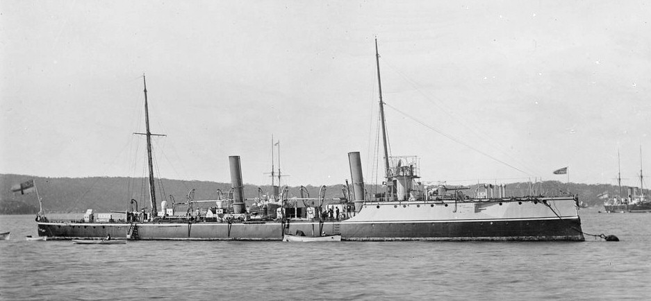 AWM caption : "TORPEDO GUN BOAT HMS BOOMERANG (EX HMS WHITING) SHOWING HER STARBOARD SIDE. BOOMERANG WAS ONE OF SEVEN WARSHIPS SUPPLIED AND MANNED BY THE ROYAL NAVY AS AN AUXILIARY SQUADRON FOR THE DEFENCE OF AUSTRALIA. BOOMERANG ARRIVED IN SYDNEY IN 1891-09 AND RETURNED TO ENGLAND IN 1905, BEING SOLD AT PORTSMOUTH ON 1905-07-11."